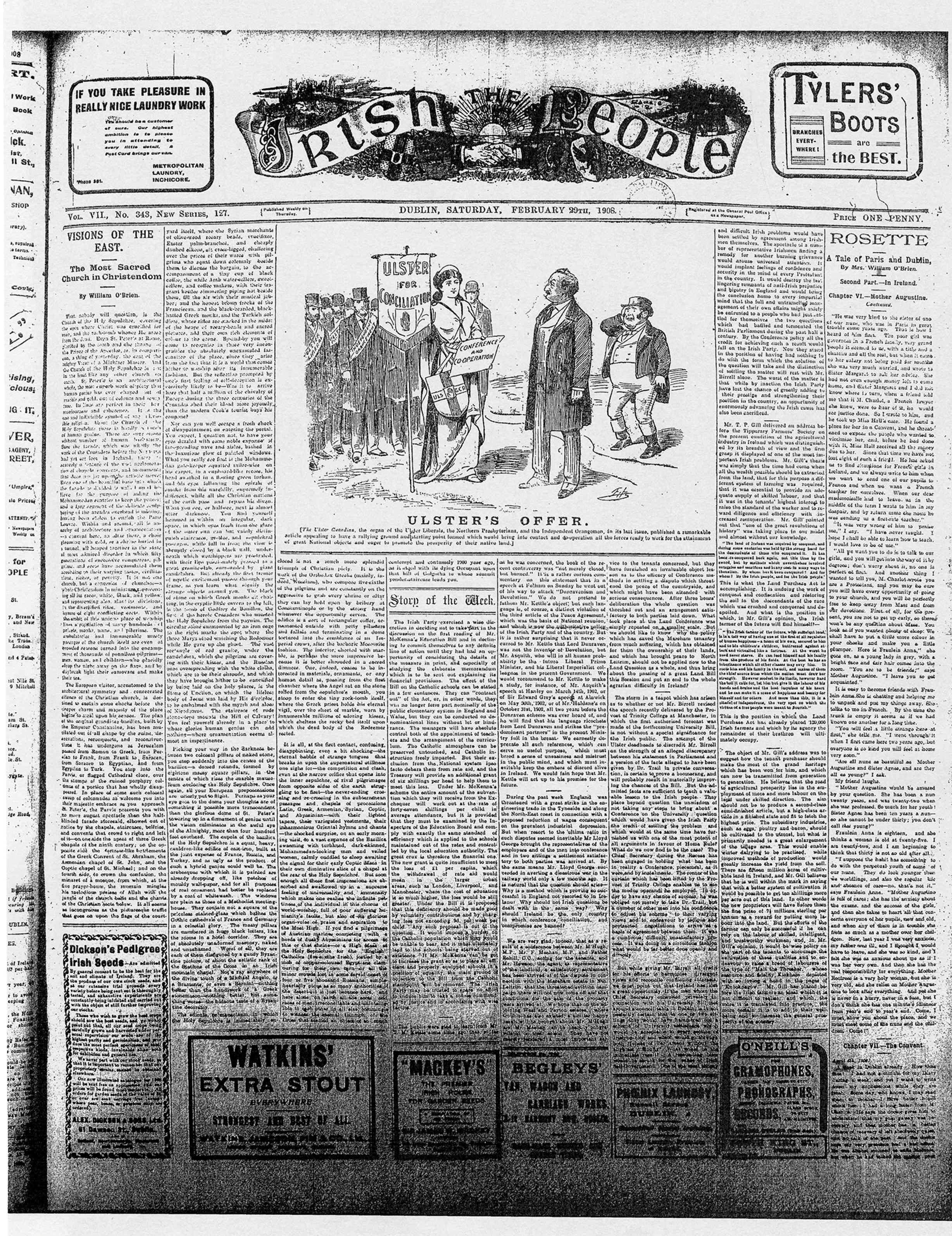 Image is an example of the front page of The Irish People, a weekly newspaper published by William O’Brien MP, from 16 September 1899 to the 7 November 1903 in Dublin and again from 30 September 1905 to the 27 March 1909 in Cork. Originally published as the organ of the United Irish League, an agrarian reform organisation founded by O'Brien in 1898. Its front page generally carried an illustration of a topical political theme, in this case the underlying text reads: ULSTER’S OFFER: ‘The ‘’Ulster Guardian’’, the organ of the Ulster Liberals, the Northern Presbyterians, and the Independent Orangemen, in its last issue, published a remarkable article appealing to have a rallying ground and starting point formed, which would bring into contact and co-operation all forces ready to work for the attainment of great National objects and eager to promote the prosperity of their native land’. The illustration shows an Ulster delegation with a standard bearer holding a banner inscribed “ULSTER for CONCILIATON” as well as the offer of “Conference and Co-Operation”. Standing in front trying to make sense of it, John Redmond MP, leader of the Irish Parliamentary Party, in the background (right) the astonished John Bull .